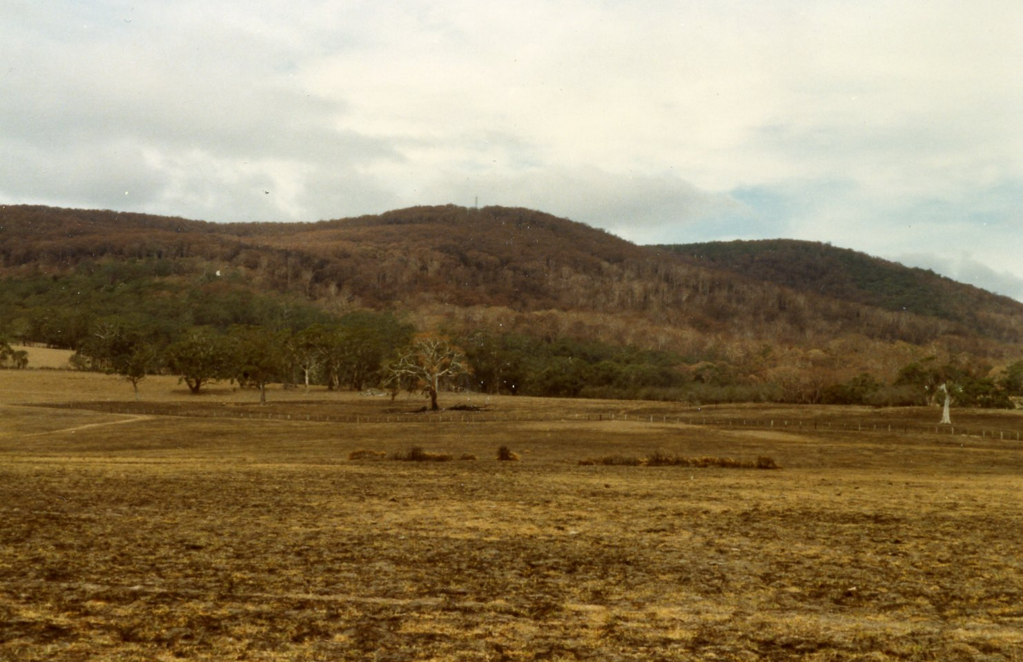 Where the fire first met Mount Macedon, the fire crossed these paddocks of stubble and went up the hill.